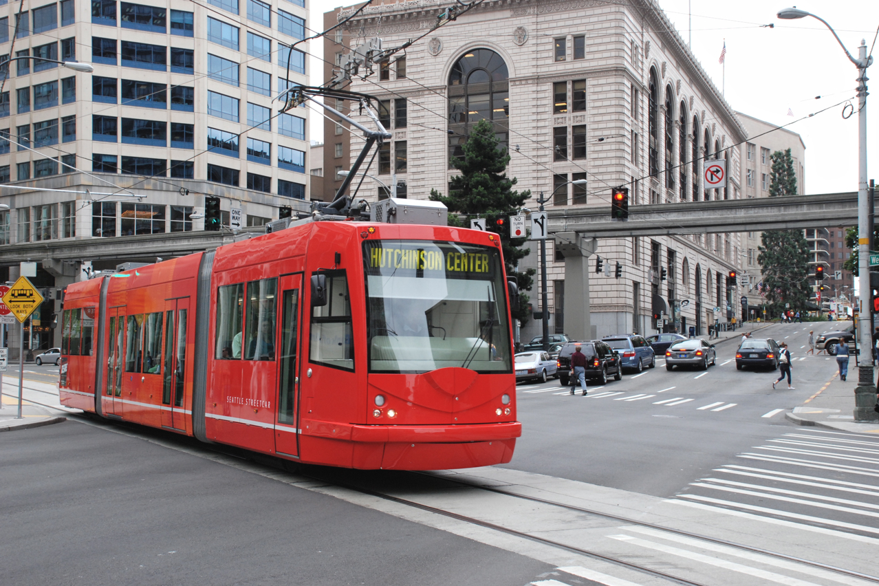 The Seattle Streetcar system's car 301 in service on the system's first line, the South Lake Union line. It is northbound on Westlake Avenue, crossing Stewart Street, at the beginning of a trip to the Fred Hutchinson Cancer Research Center. The streetcar vehicle is a 12-Trio built in 2007 by Inekon Trams, in the Czech Republic. It is crossing the wires of trolleybus route 70.